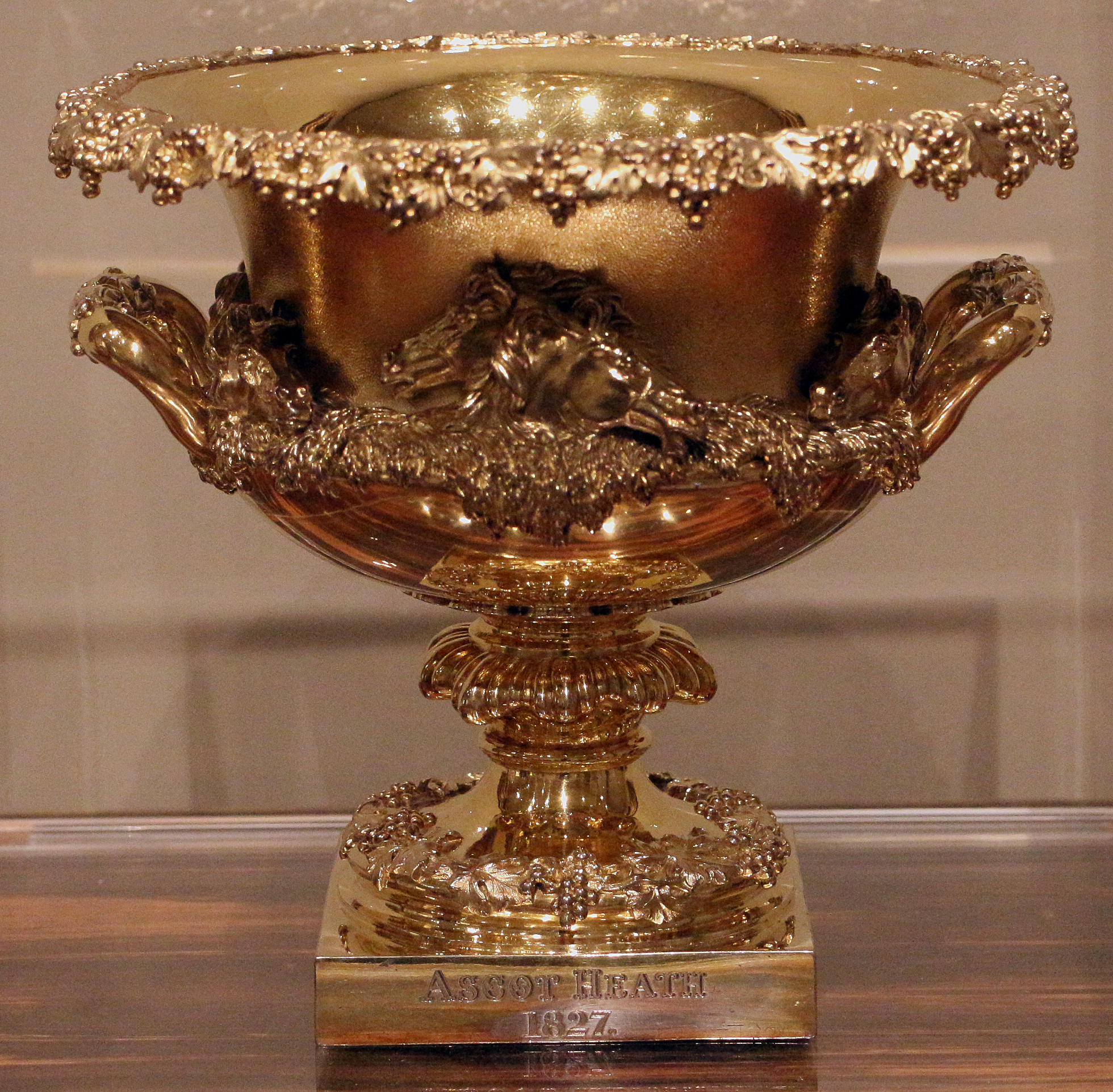 European metalware in the Art Institute of Chicago